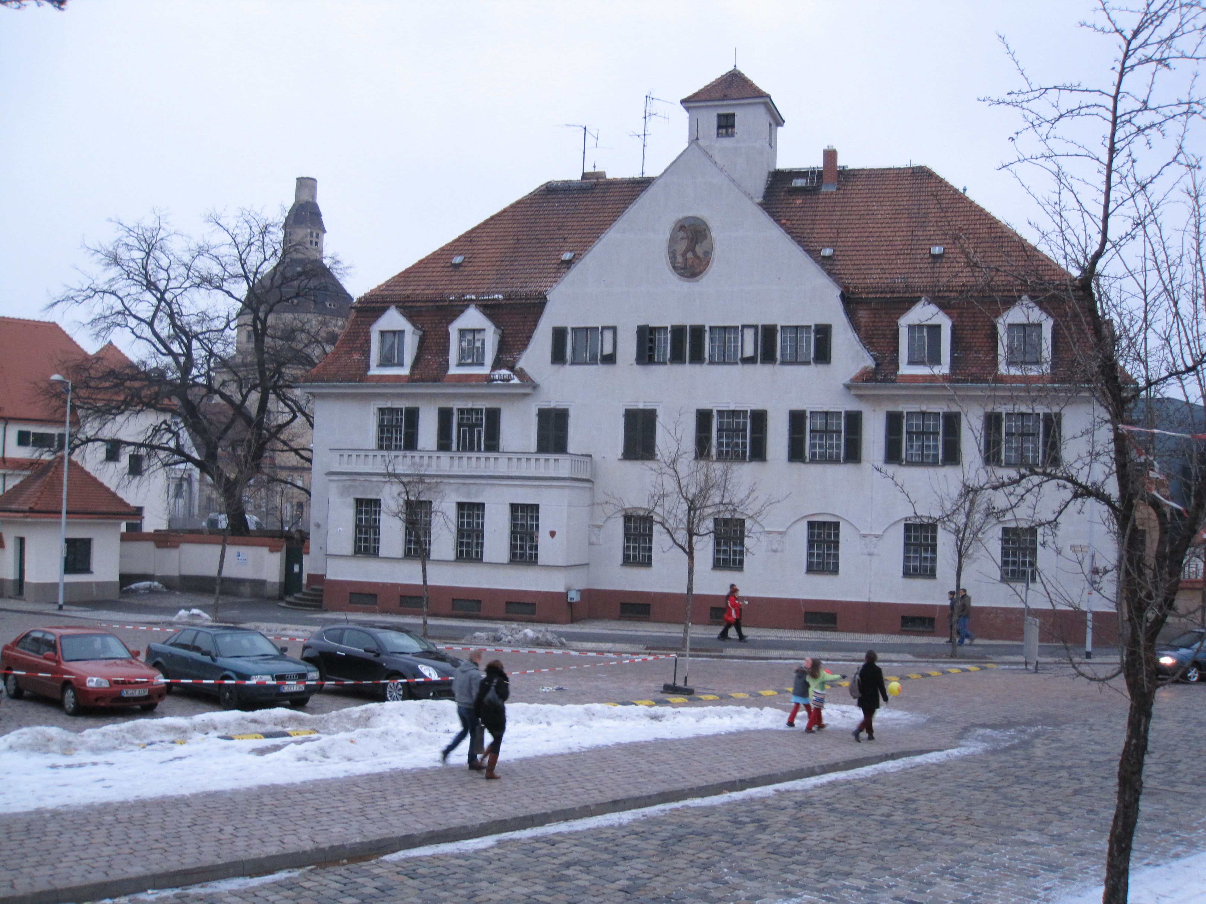 SlaughterHouse buildings in Dresden (the building with the address 5 Messer str in the foreground. This is where Kurt Vonnegut was held as a POW in Dresden during early 1945 and where he witnessed the firebombing of Dresden starting on February 13, 1945.